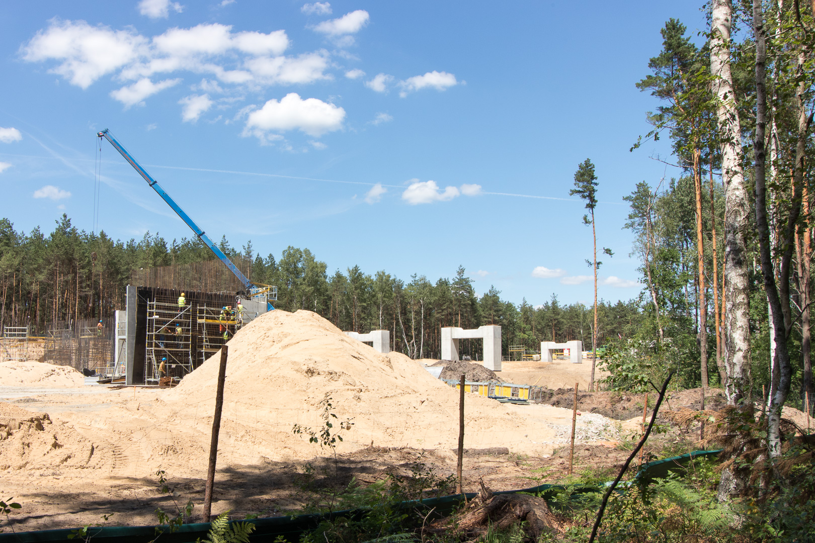 Construction of a flyover of the Southern Bypass of Warsaw (POW) in Wawer, in the Masovian Landscape Park, approx. 160 m from the Torfy Lake. This is a photography of protected area with CRFOP ID PL.ZIPOP.1393.PK.72